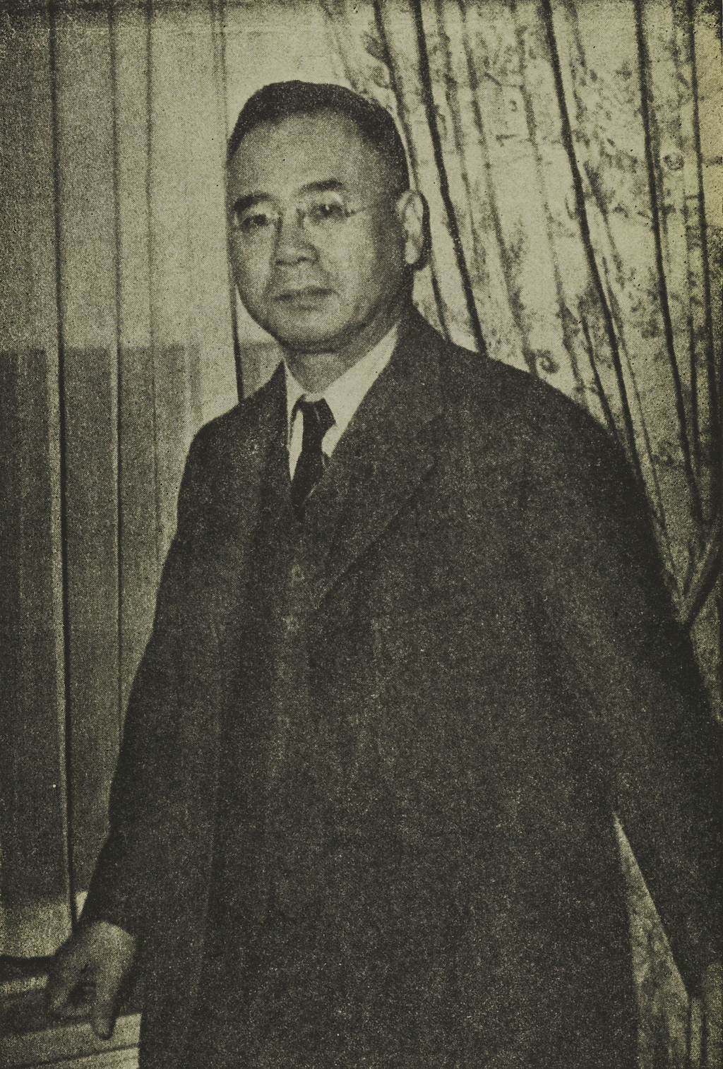 Portrait of Ishii Itaro (石射猪太郎, 1887 – 1954)